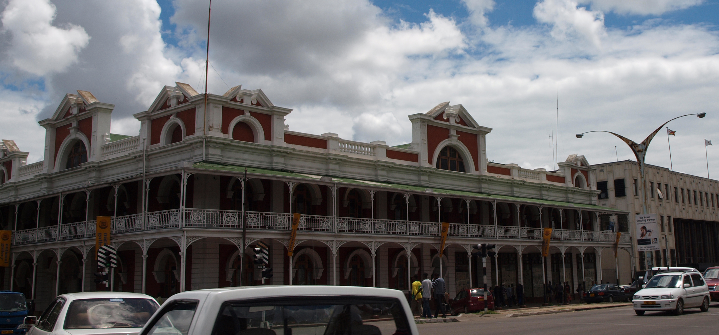 Zimbabwe, Bulawayo. National Art Gallery, Bulawayo.